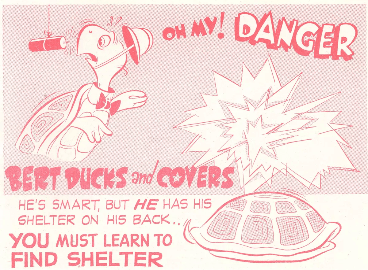 Screenshot from "Duck and Cover" film, a 1952 movie. The ‘Duck and Cover’ propaganda movie was probably one of the most famous of all the pieces of propaganda during the early stages of the cold war. It was targeted at school children and was intended to install the constant fear of a nuclear attack from the Soviets.